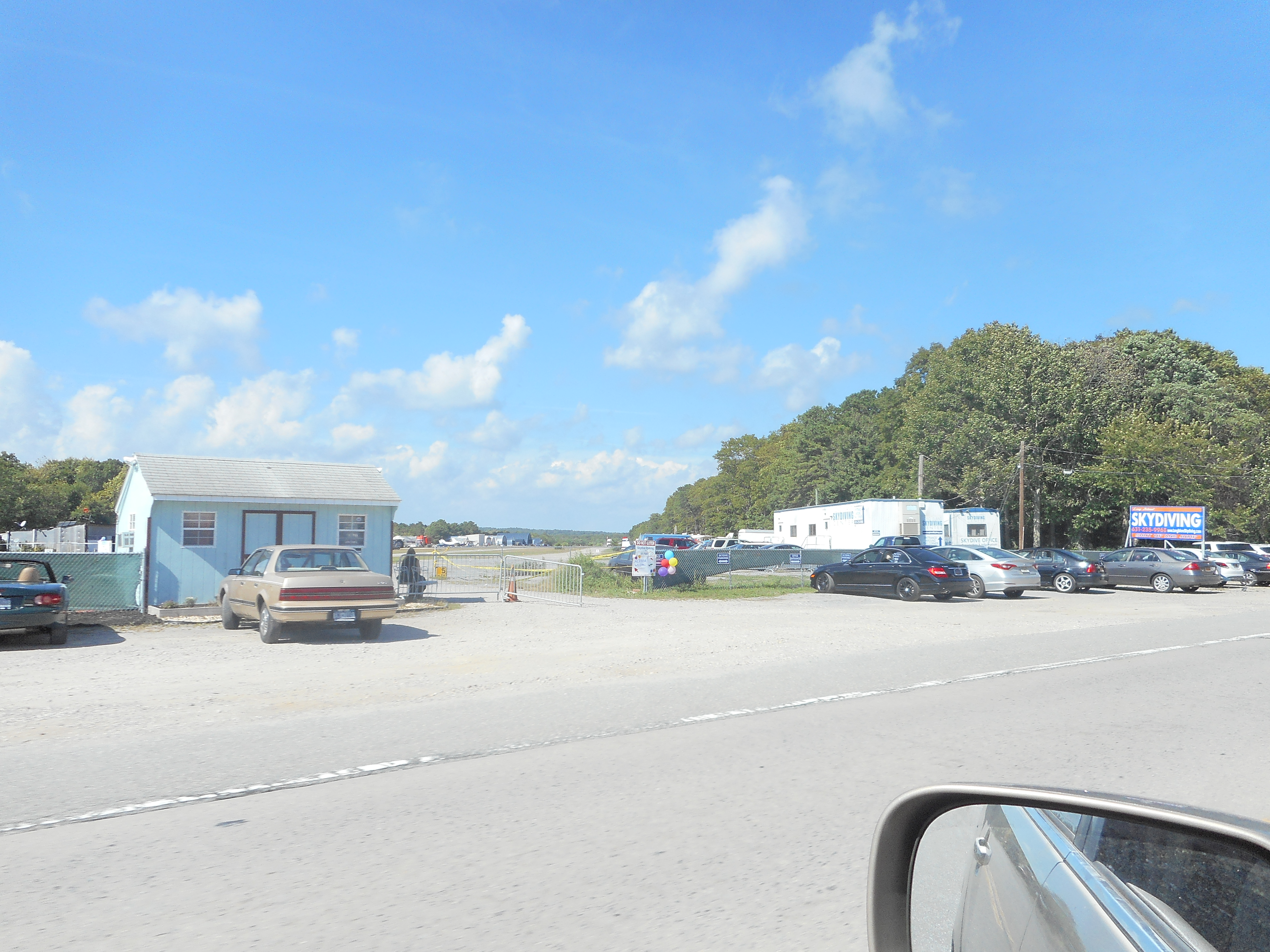 Sign for the Spadaro Airport (signed as Long Island Skydiving) as seen from eastbound Montauk Highway (Suffolk CR 80) in Eastport, New York. Further details to come later.